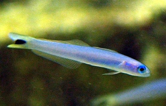 Blacktail goby (Ptereleotris heteroptera) (Bleeker, 1855)